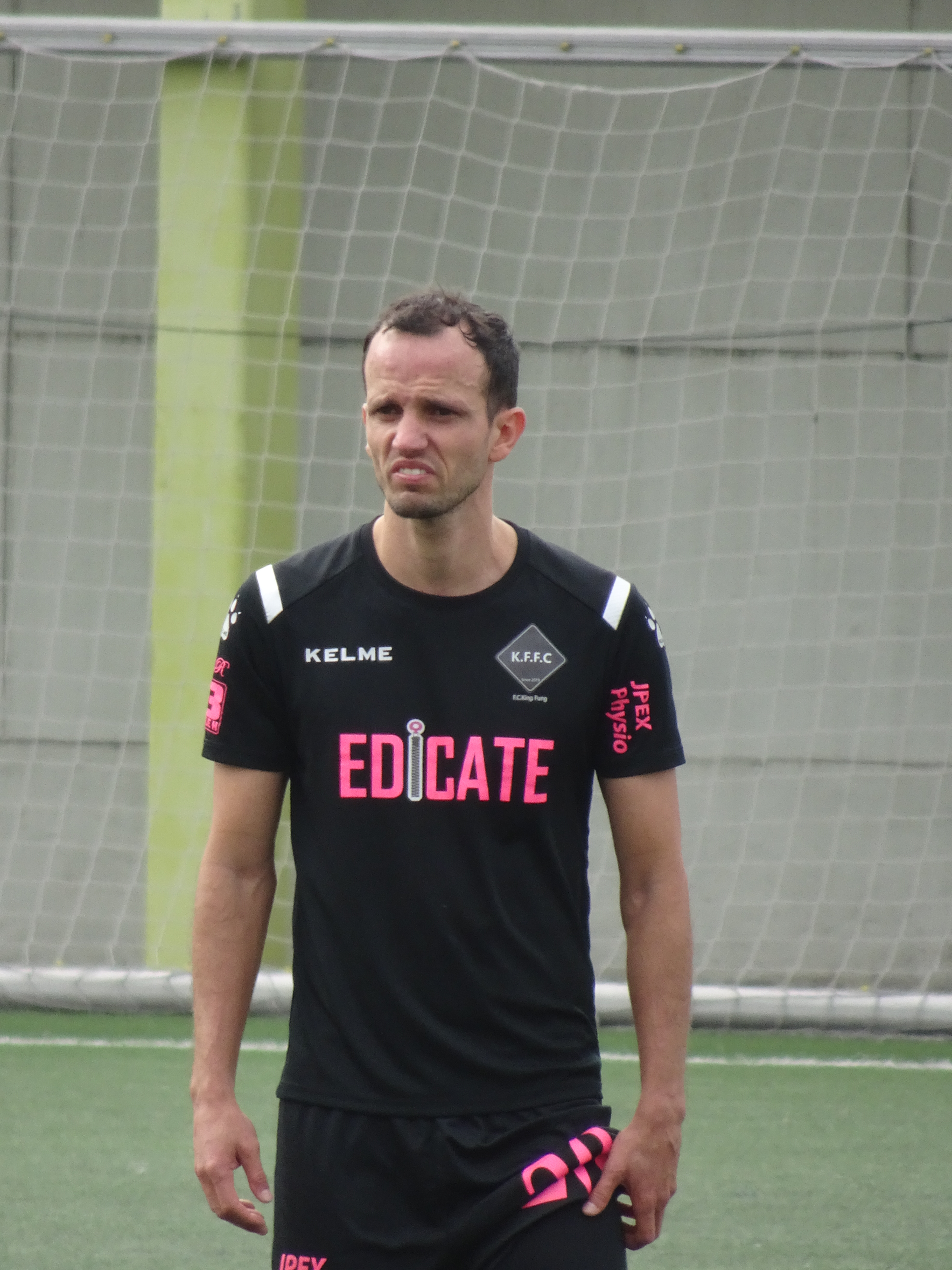 Diego Silva Patriota (19 Jan 2020, Hong Kong First Division, King Fung vs Sham Shui Po, Tin Yip Road Park)